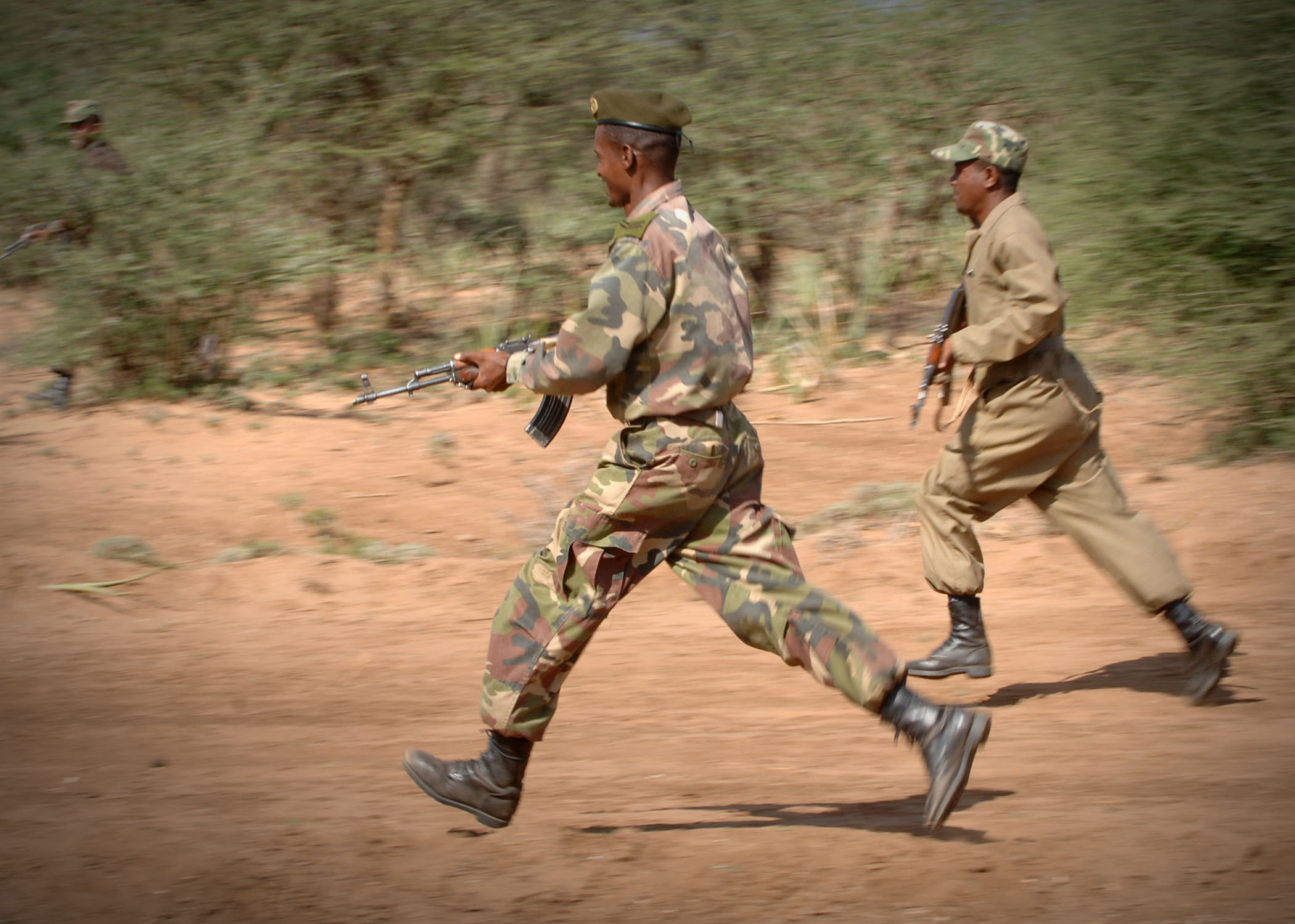 Ethiopian National Defense Force students ambush another student squad during Combined Joint Task Force - Horn of Africa's train the trainer course in Hurso, Ethiopia, December 29, 2006. The course teaches students how to train others in their nation's milit ary to increase their nation's capability to protect its borders and ports. (U.S. Navy photo by Chief Mass Communication Specialist Eric A. Clement) (Released) (Released to Public) Location: HURSO, ETHIOPIA AFRICA 3